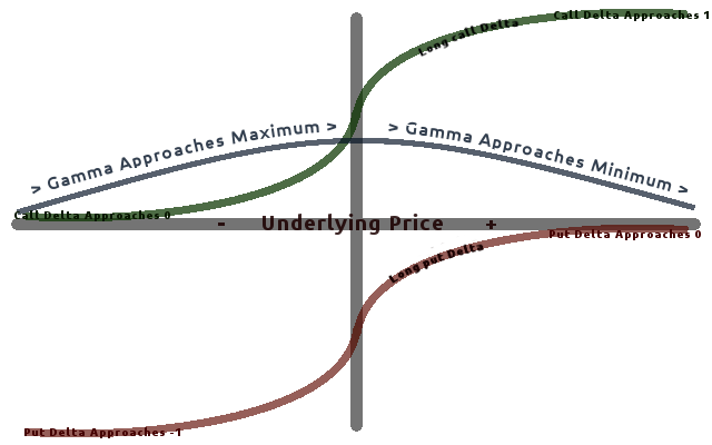 A graph showing the relationship between long option delta, underlying price, and Gamma